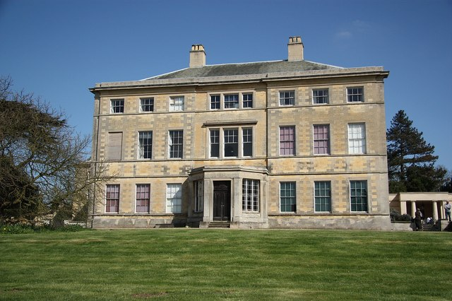 Leadenham House. South front of Leadenham House, built 1790-96 by Christopher Staveley